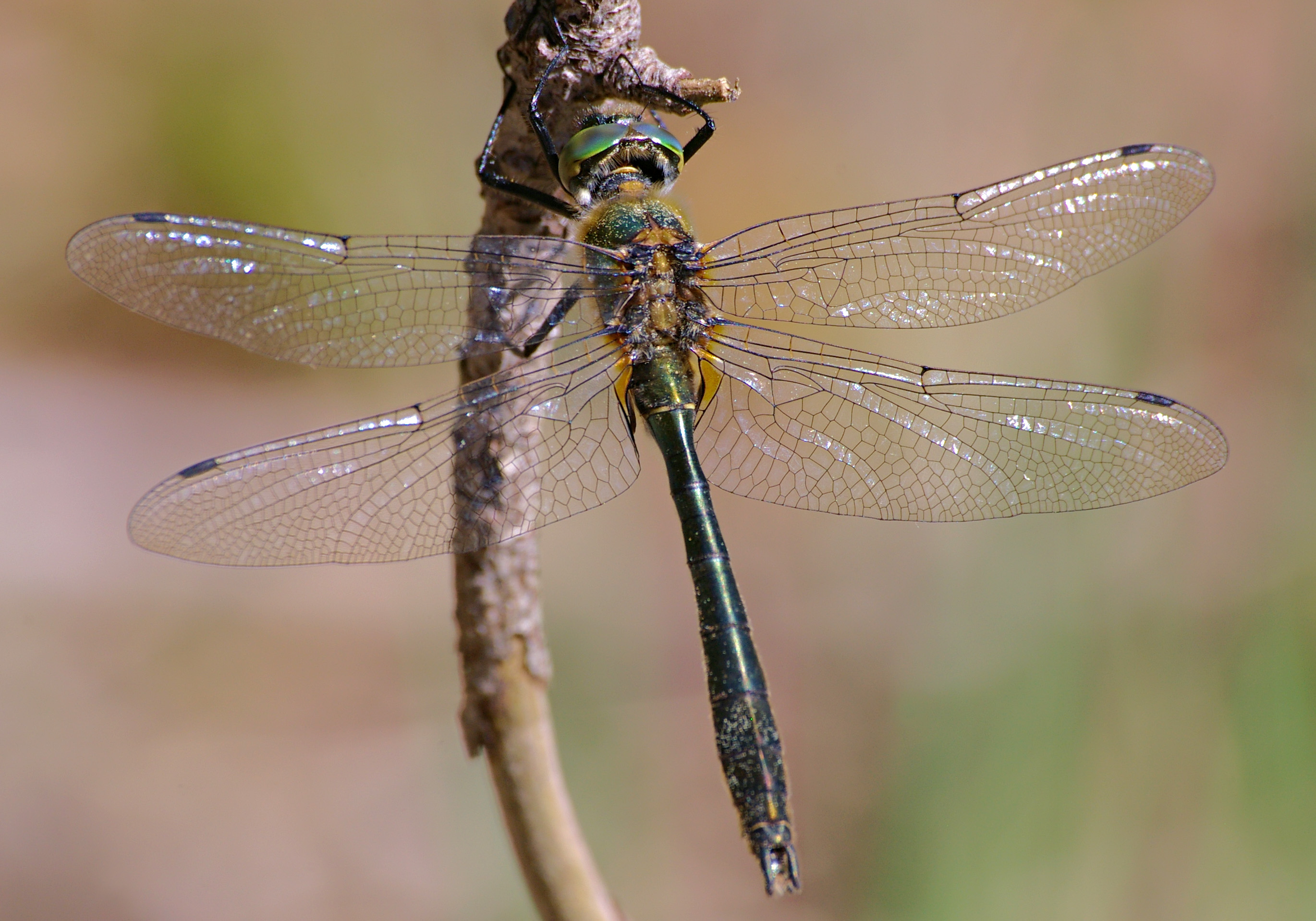 Male specimen of the dragonfly Cordulia aenea (Downy Emerald).